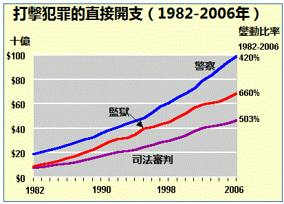 Yearly U.S. spending. Direct expenditure by criminal justice function, 1982-2006. "Direct expenditure for each of the major criminal justice functions (police, corrections, judicial) has been increasing." Traditional Chinese editon